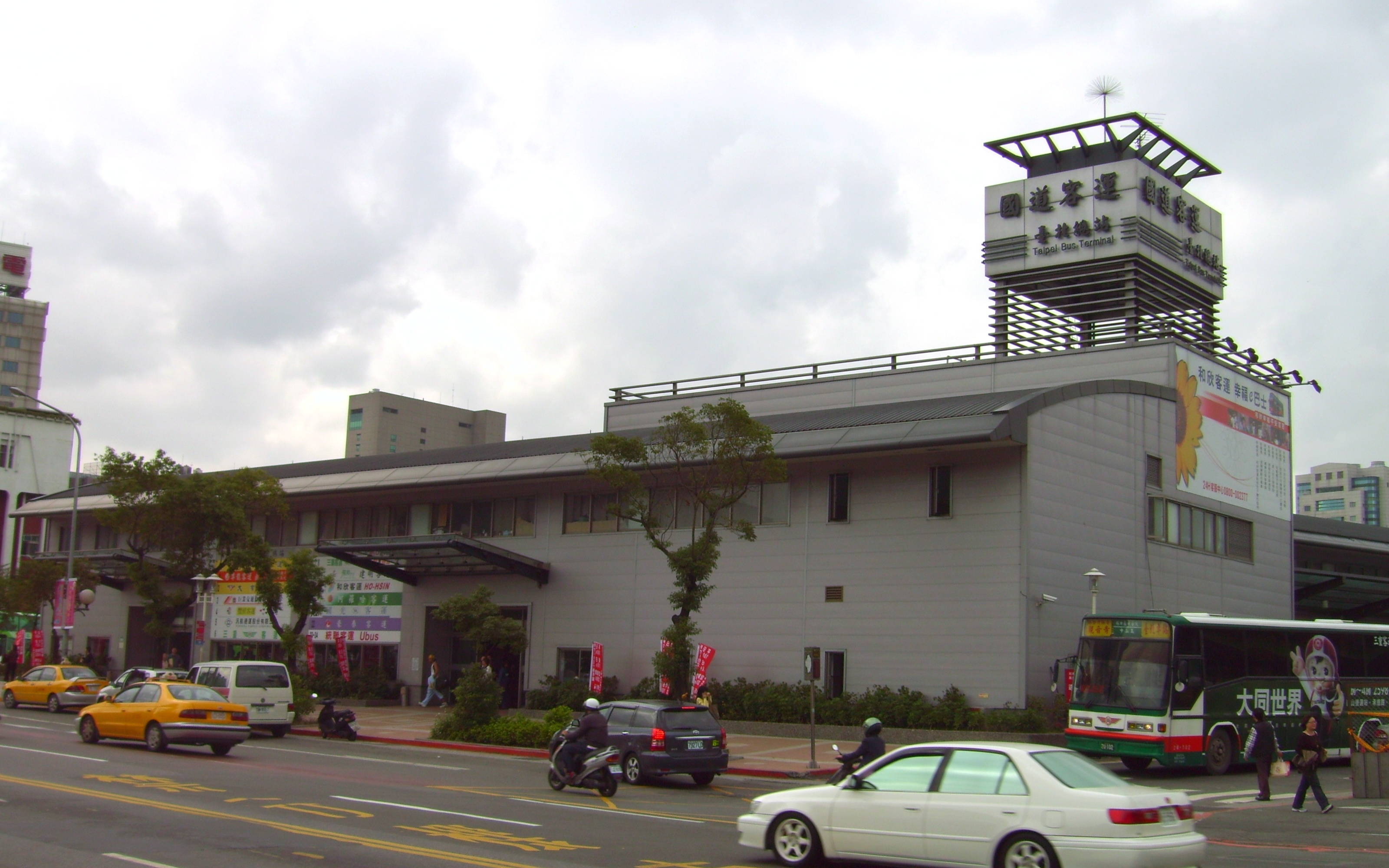 Taipei Intercity Bus Terminal.中文（台灣）: 國道客運台北總站。